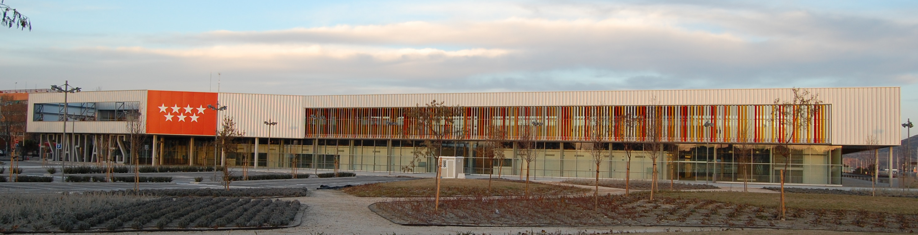 Main facade of the "Espartales Sports City" in Alcalá de Henares (Community of Madrid - Spain).